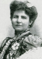 Photograph of the Portuguese poet and women's rights activist Lutegarda Guimarães de Caires (1873-1935)